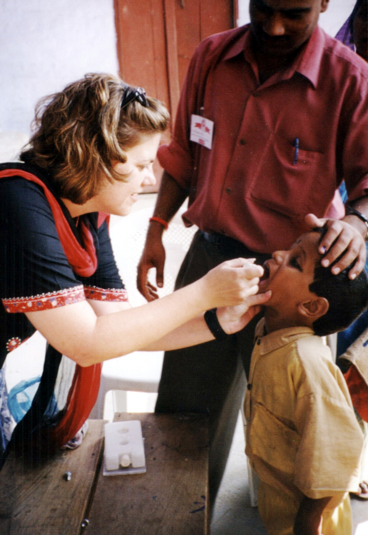 Pediatric polio vaccination, India. Stop Transmission of Polio (STOP) Teams